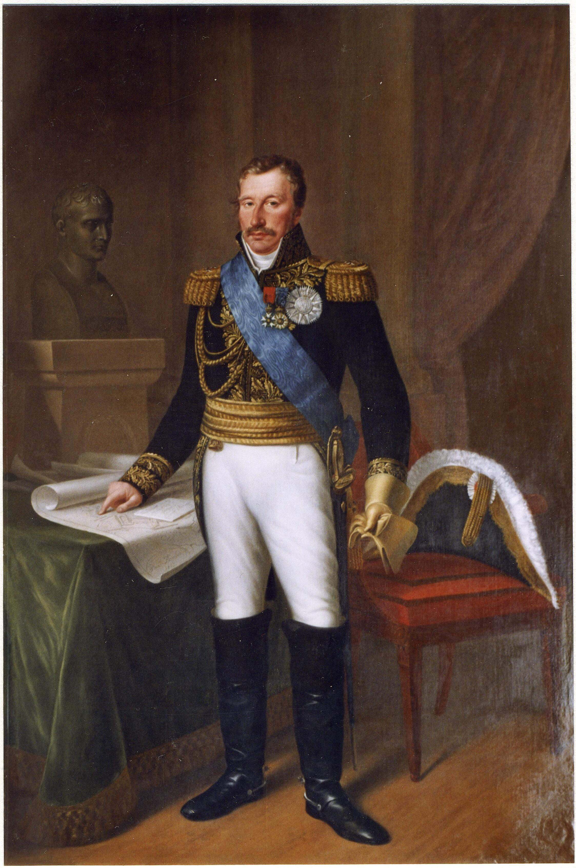 Dirk van Hogendorp as the gouvernor of Hamburg, with a map of the cities fortifications and a bust of Napoleon. Restored in 2005